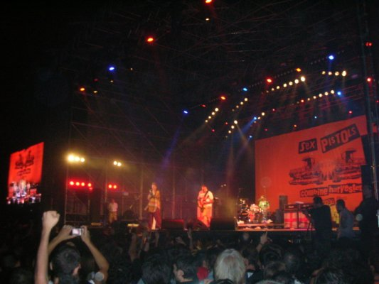 Sex Pistols in concert in Turin, Italy.